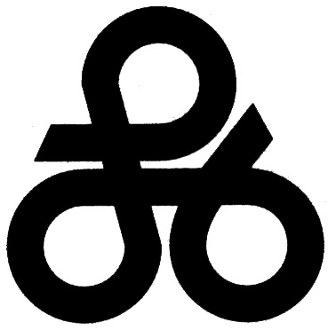 Okinawa Okinawa chapter